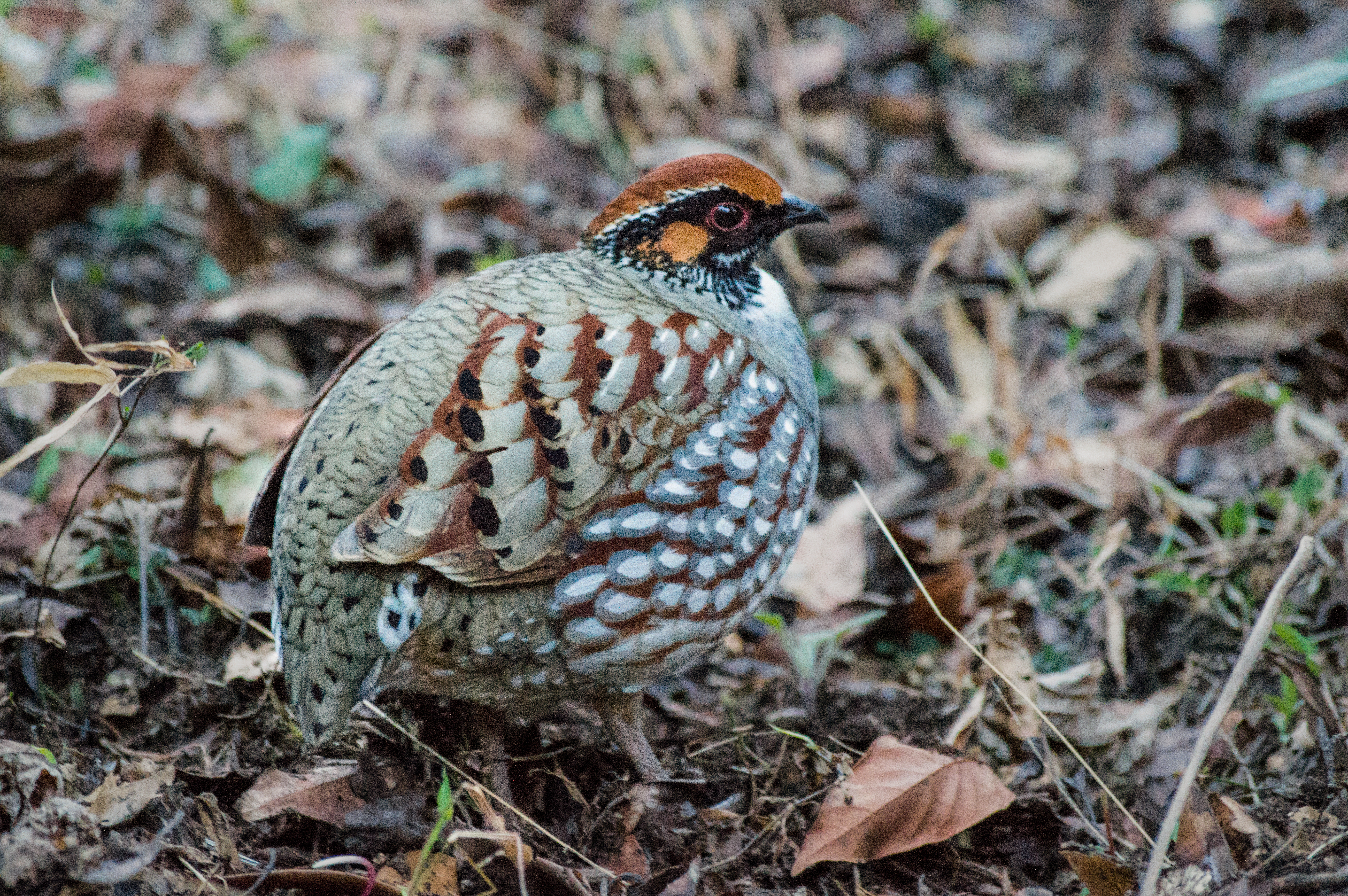 These birds were clicked at Deoria Tal lake during my Deoria Tal to Chandrashila trekking.